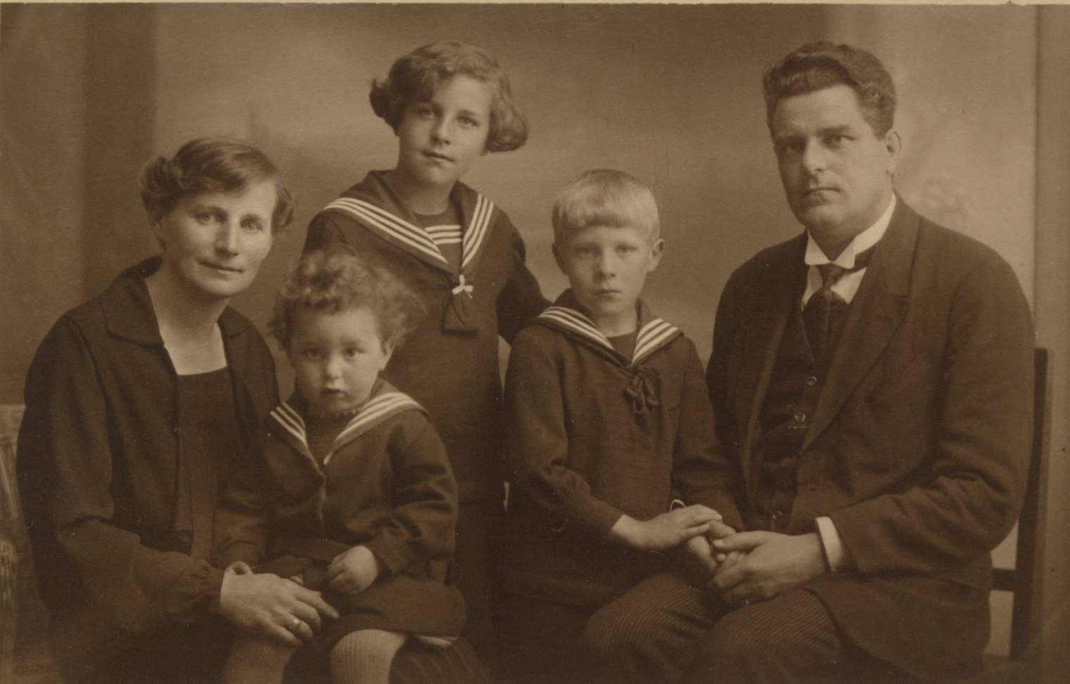 Toni Plankensteiners Frau und Kinder in der Zwischenkriegszeit.